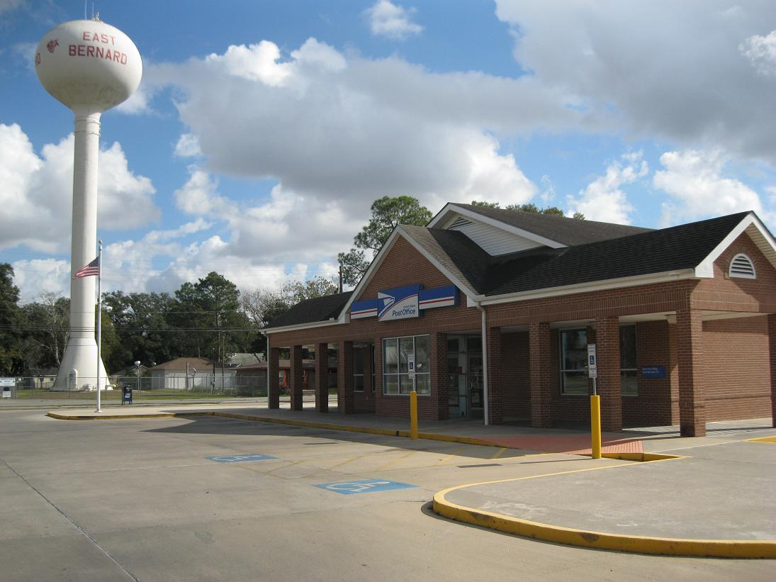 Photo shows US post office and water tower in East Bernard, Texas at Leveridge and Church Streets. View is looking east.